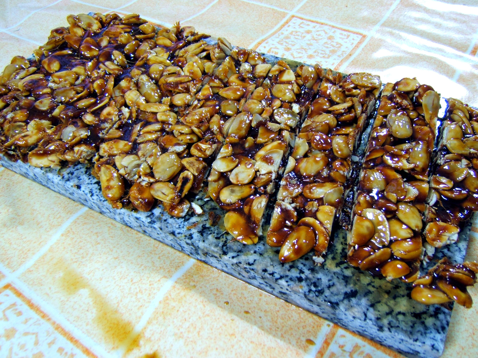 Cupeta, just done. (toasted almonds and caramel)